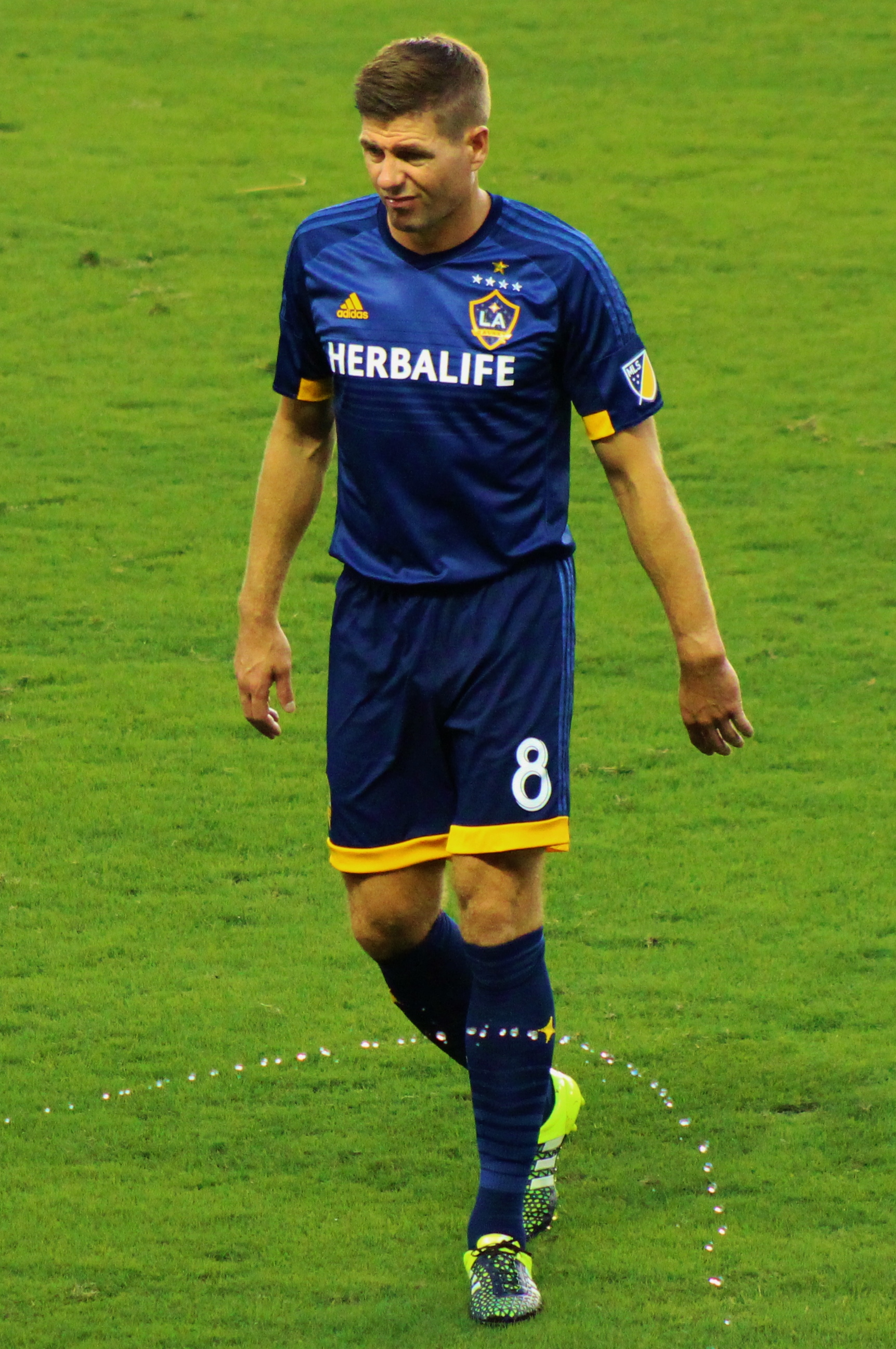 Steven Gerrard